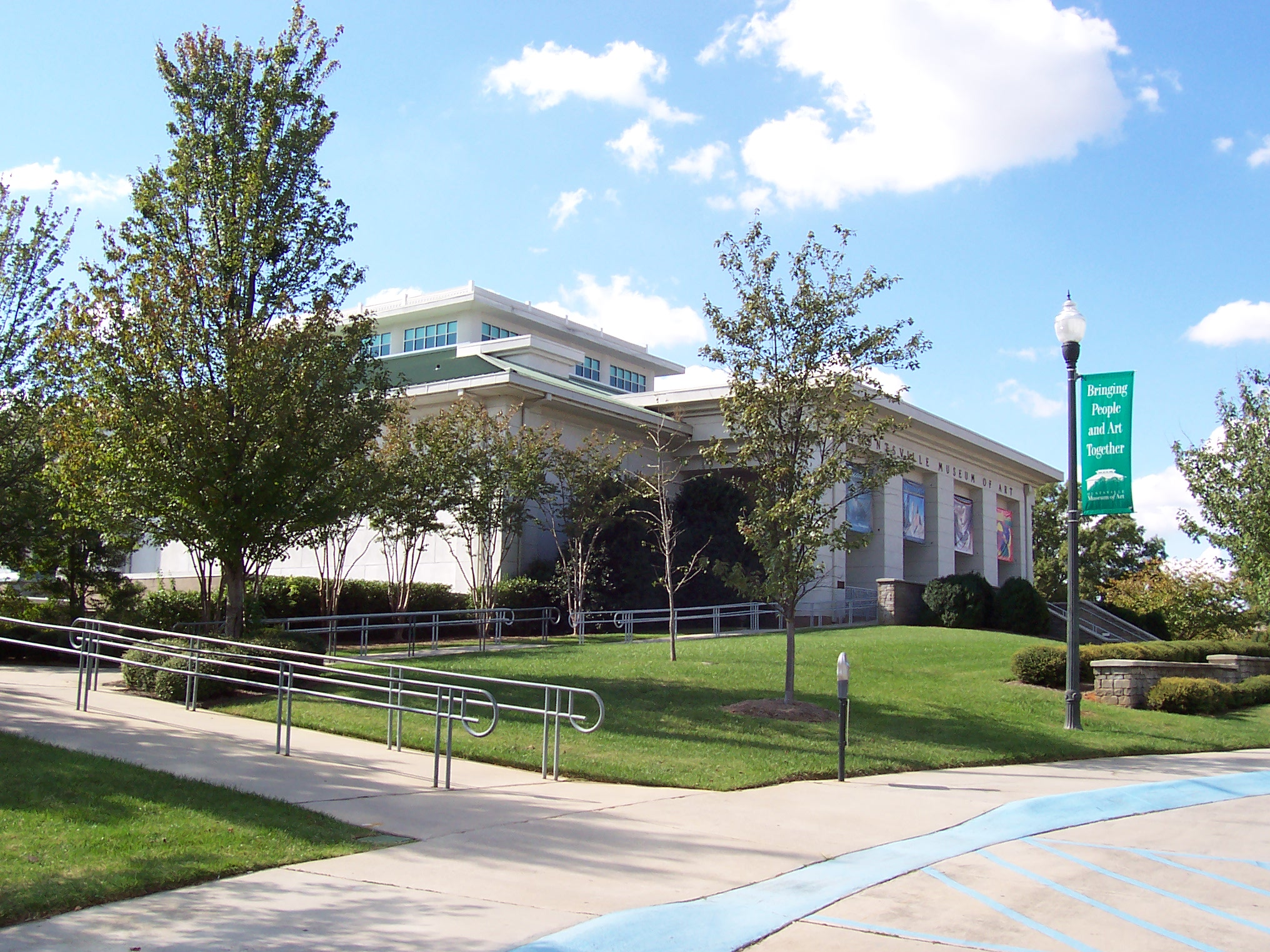 The Huntsville Museum of Art in Huntsville, Alabama.